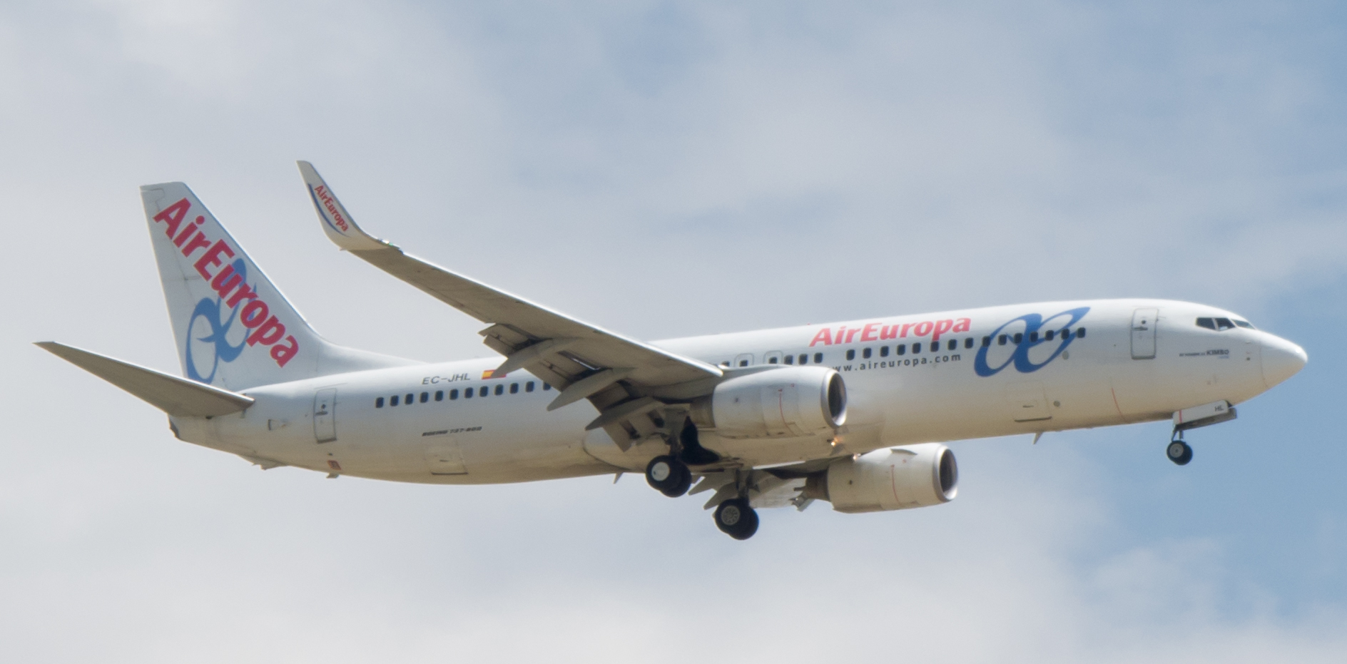 Boeing 737-85P - Air Europa